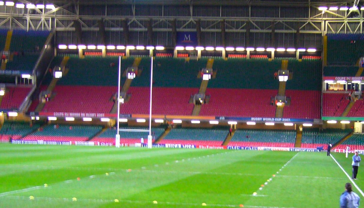 Glanmor's Gap (North Stand) at the Millennium Stadium Cardiff